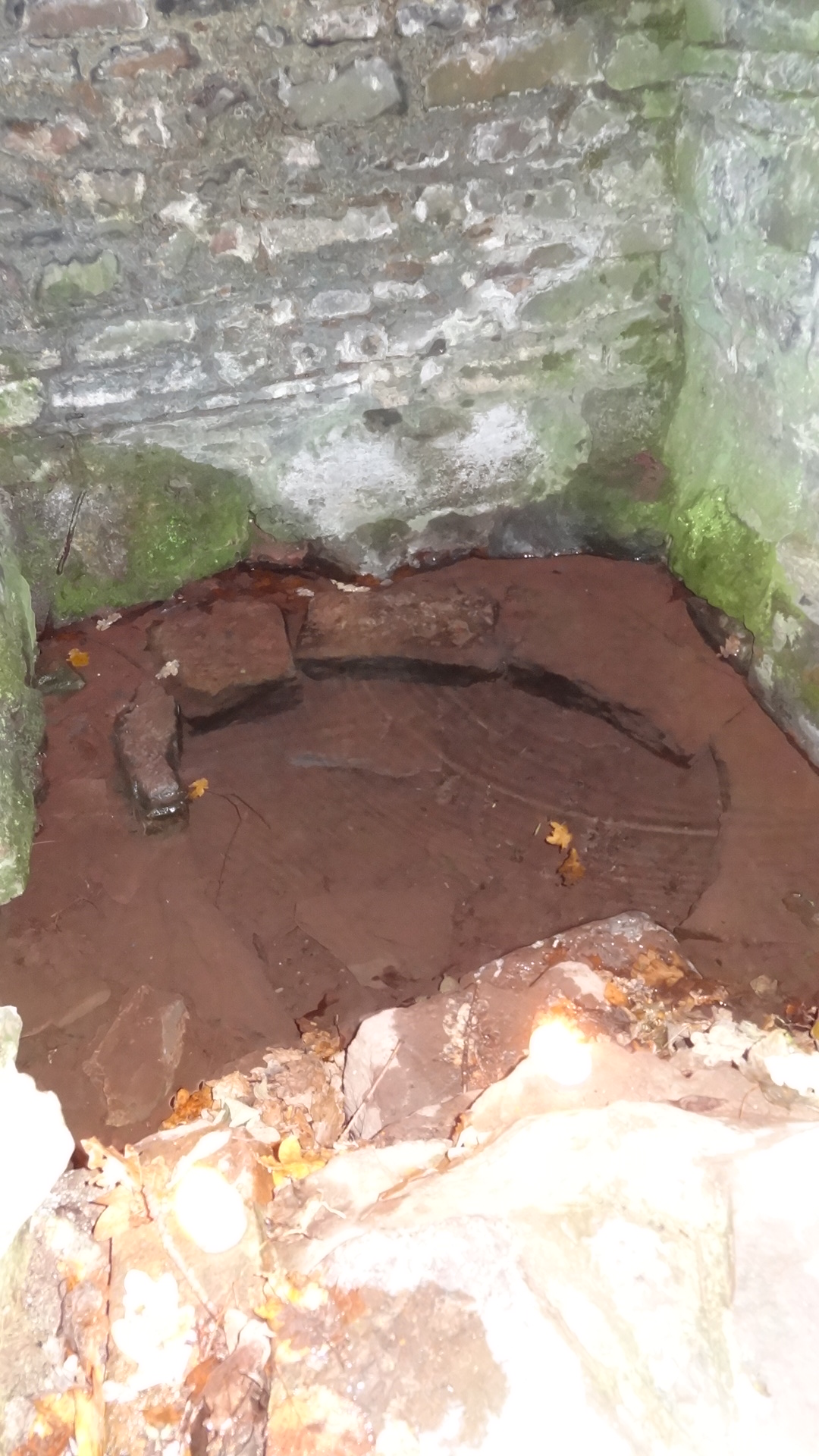 Inside Eluned's well. The local soil gives the water a rusty red colour